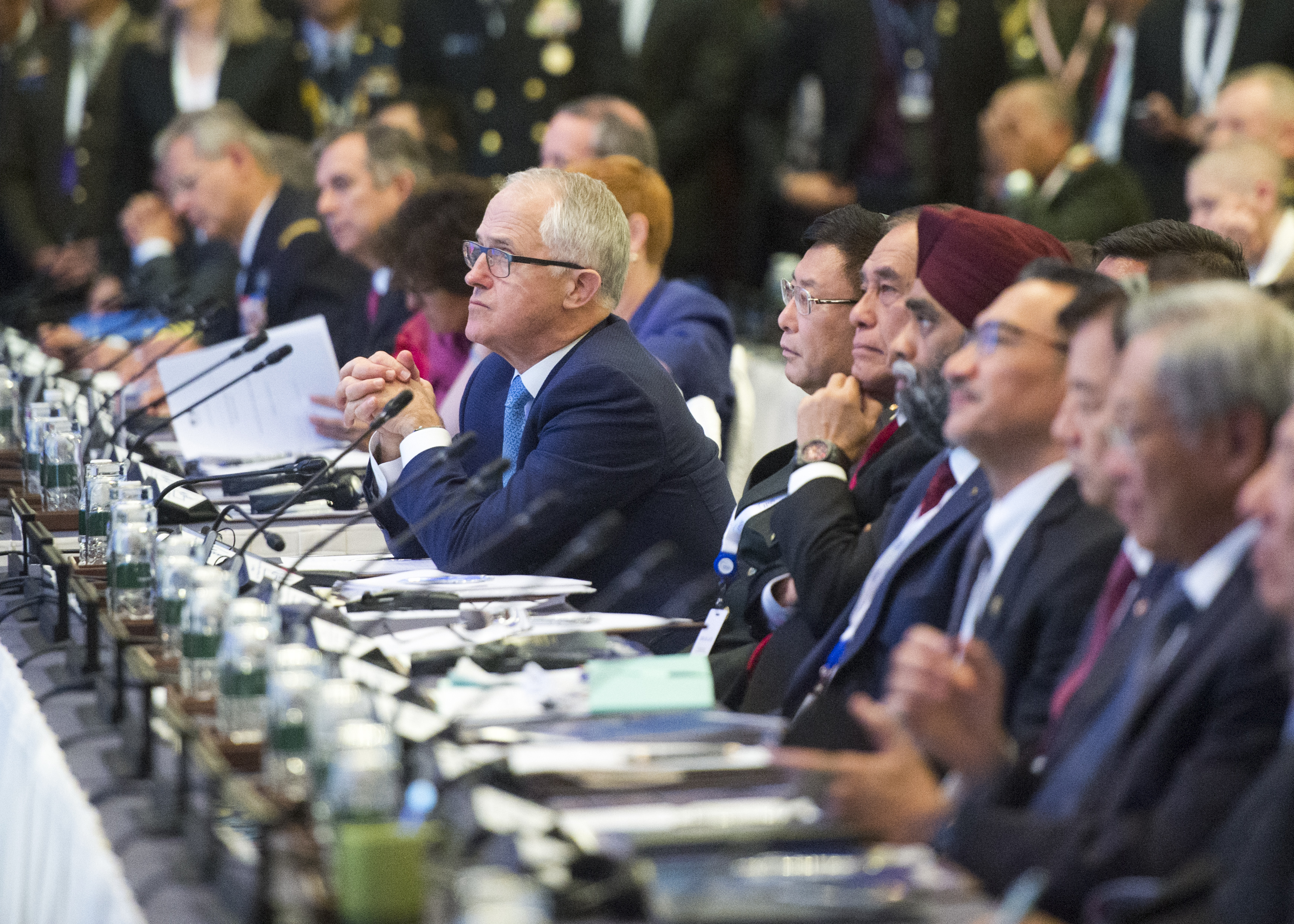 Australian Prime Minister Malcolm Turnbull listens Defense Secretary Jim Mattis deliver remarks on U.S strategy in the Asia-Pacific region at the 16th Shangri-La Dialogue Asia security conference in Singapore, June 3, 2017. Mattis is in Singapore to attend the Shangri-La Dialogue, an Asia-focused defense summit, where he will meet with regional allies and counterparts to discuss common security issues. (Dept. of Defense photo by Navy Petty Officer 2nd Class Dominique A. Pineiro/Released)